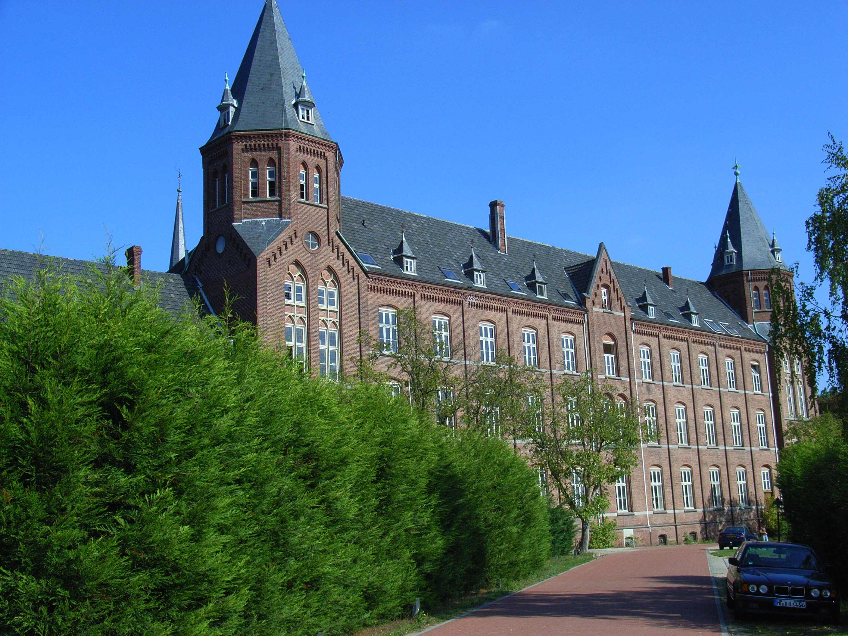 former Kolleg St. Ludwig; Roerdalen, Vlodrop, NL, southern Front